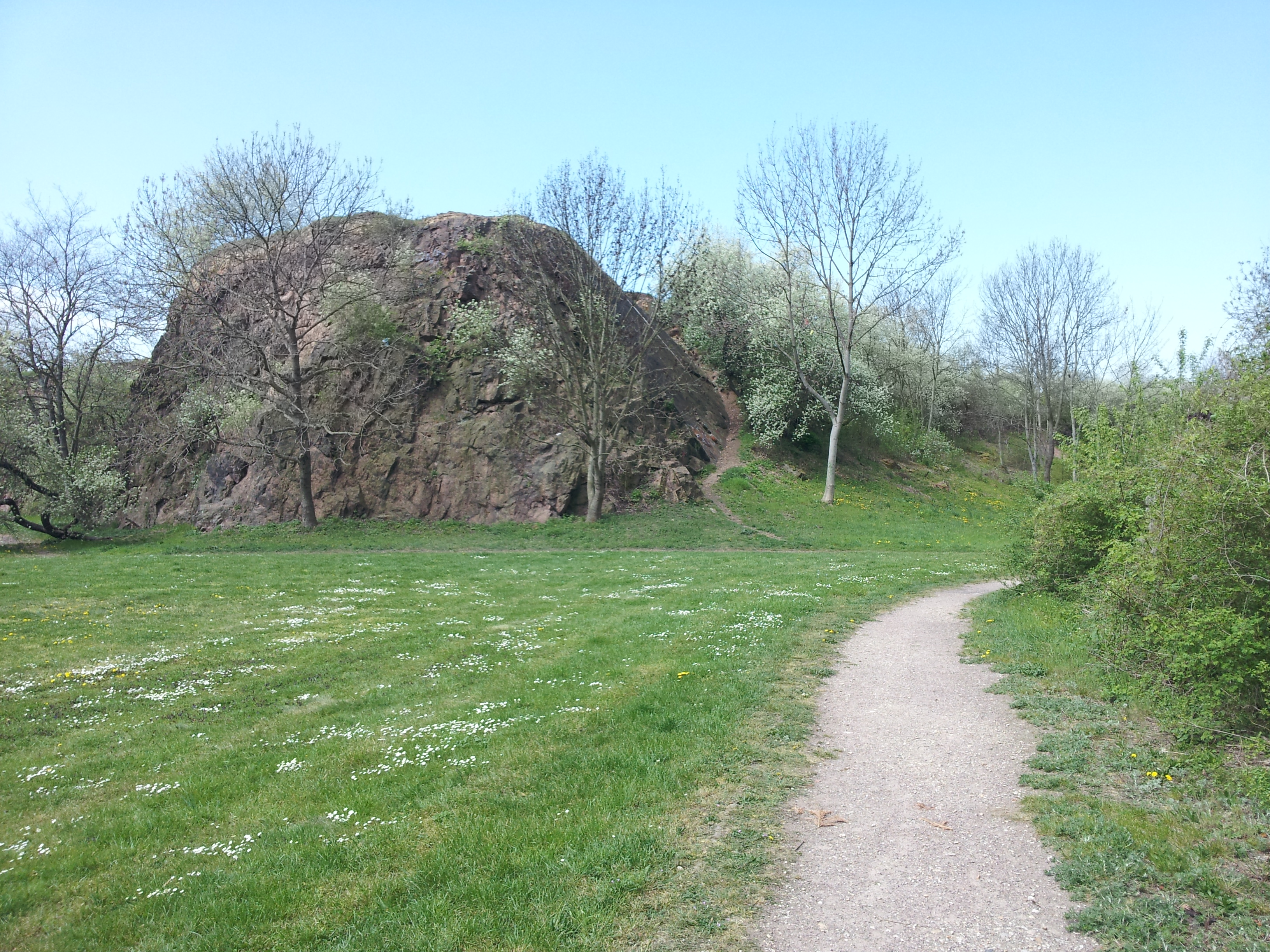 Outcrop of Rhyolite of Lower Rotliegend (Uppermost Carboniferous or Lowest Permian, Lower Halle Porphyry of Halle Porphyry Complex) at the eastern promontory of the Kleiner Galgenberg (“Little Gallows Hill”) in the northeastern part of the city of Halle (Saale), Saxony-Anhalt, Central Germany.